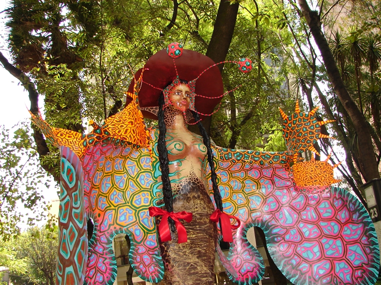 an Alebrije from the annual parade